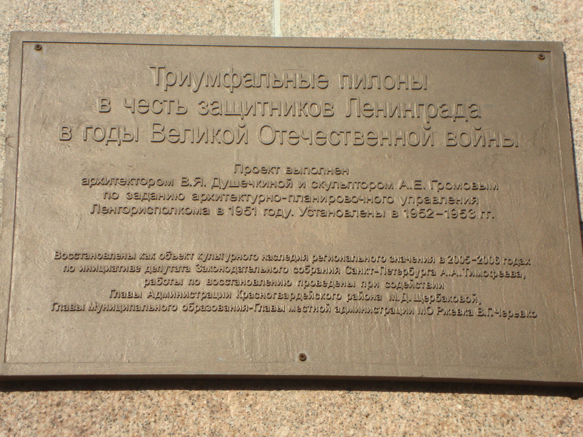 Triumph pylons memorial table